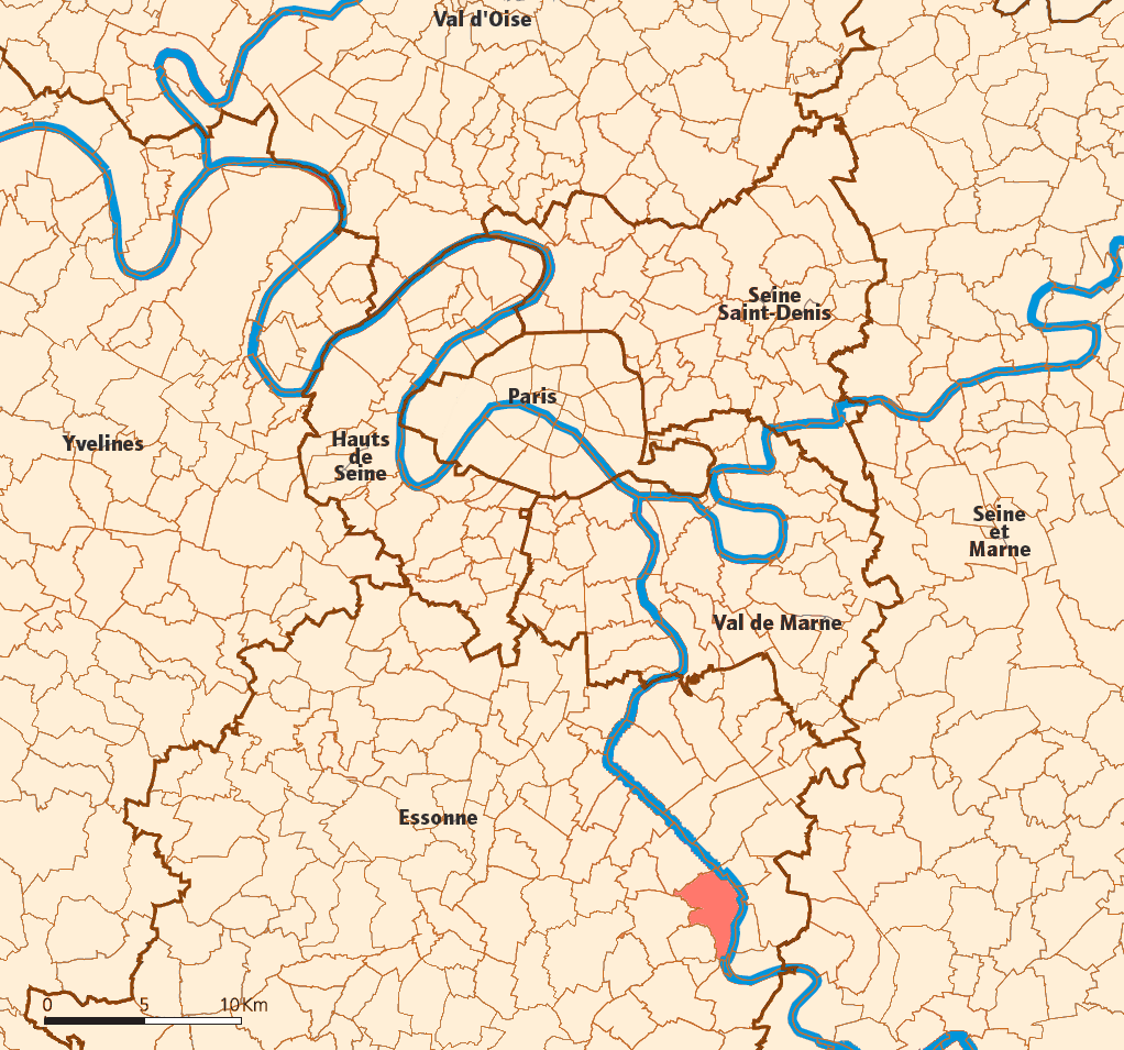 Created map myself.